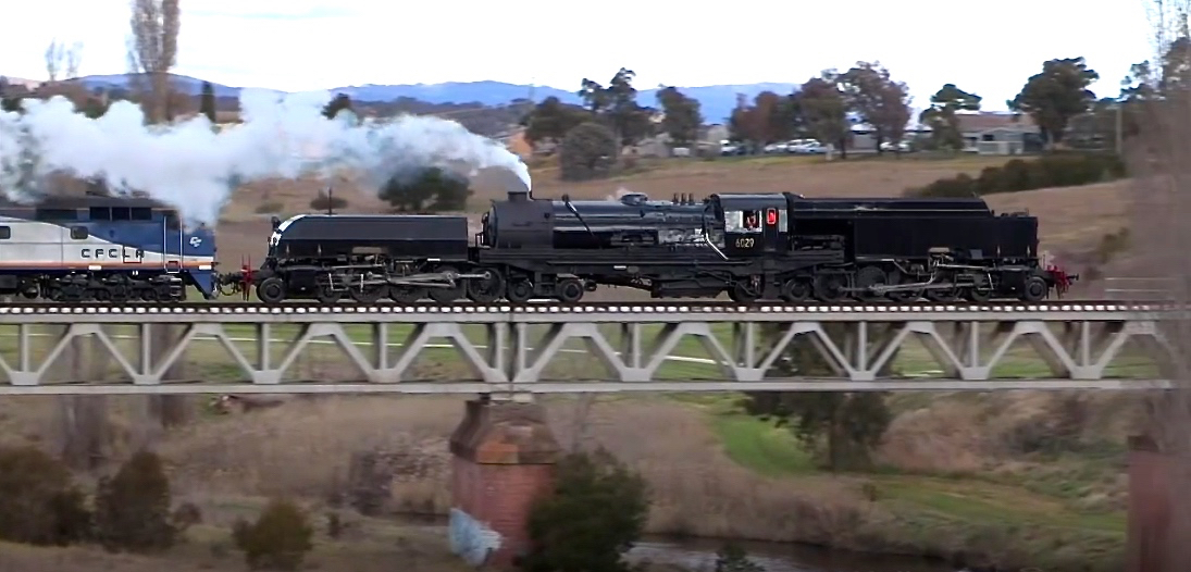 Restored steam locomotive no. 6029 hauling a load test train over the Queanbeyan River bridge on Wednesday 3 September 2014, six months before it returned to service. The journey was from Canberra to Bungendore. The locomotive was originally built for the New South Wales Government Railways by Beyer, Peacock and Company Limited of Gorton, Manchester, England, in 1956. It was owned by the Australian Capital Territory (ACT) Division of the Australian Railway Historical Society (Canberra Railway Museum) when the journey took place.